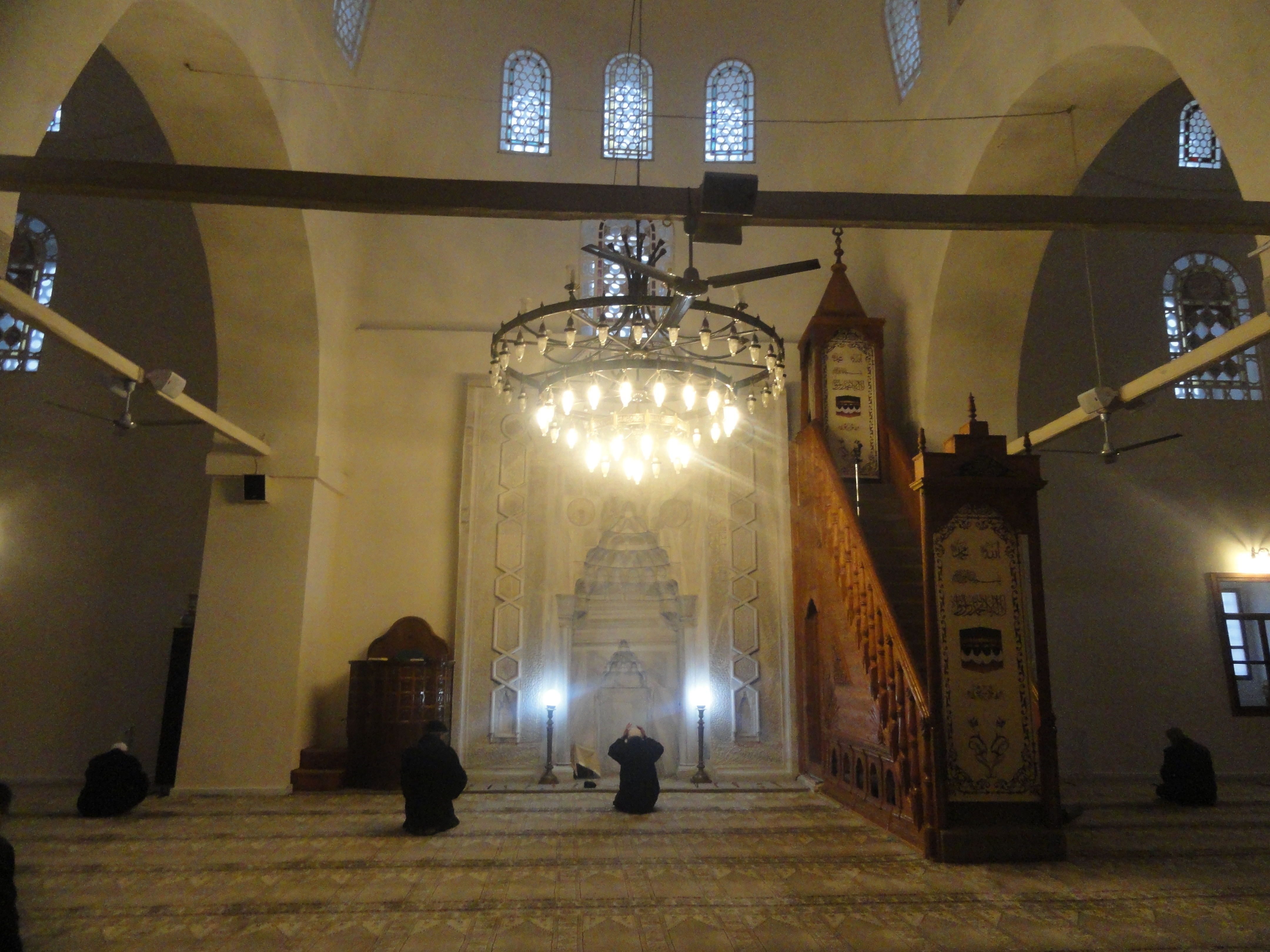 Alaeedin Mosque interior, Sinop